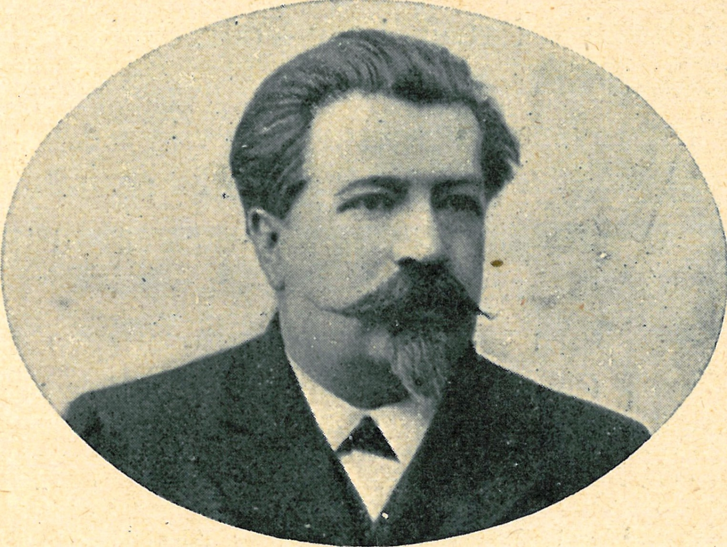 Wacław Męczkowski